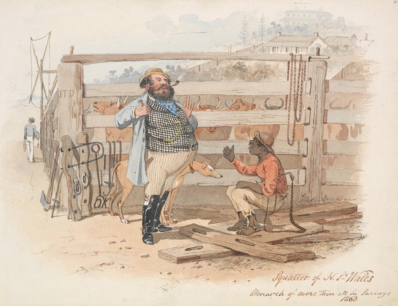 Squatter of N.S.Wales Monarch of more than all he Surveys, watercolour, 27 x 35 cm.